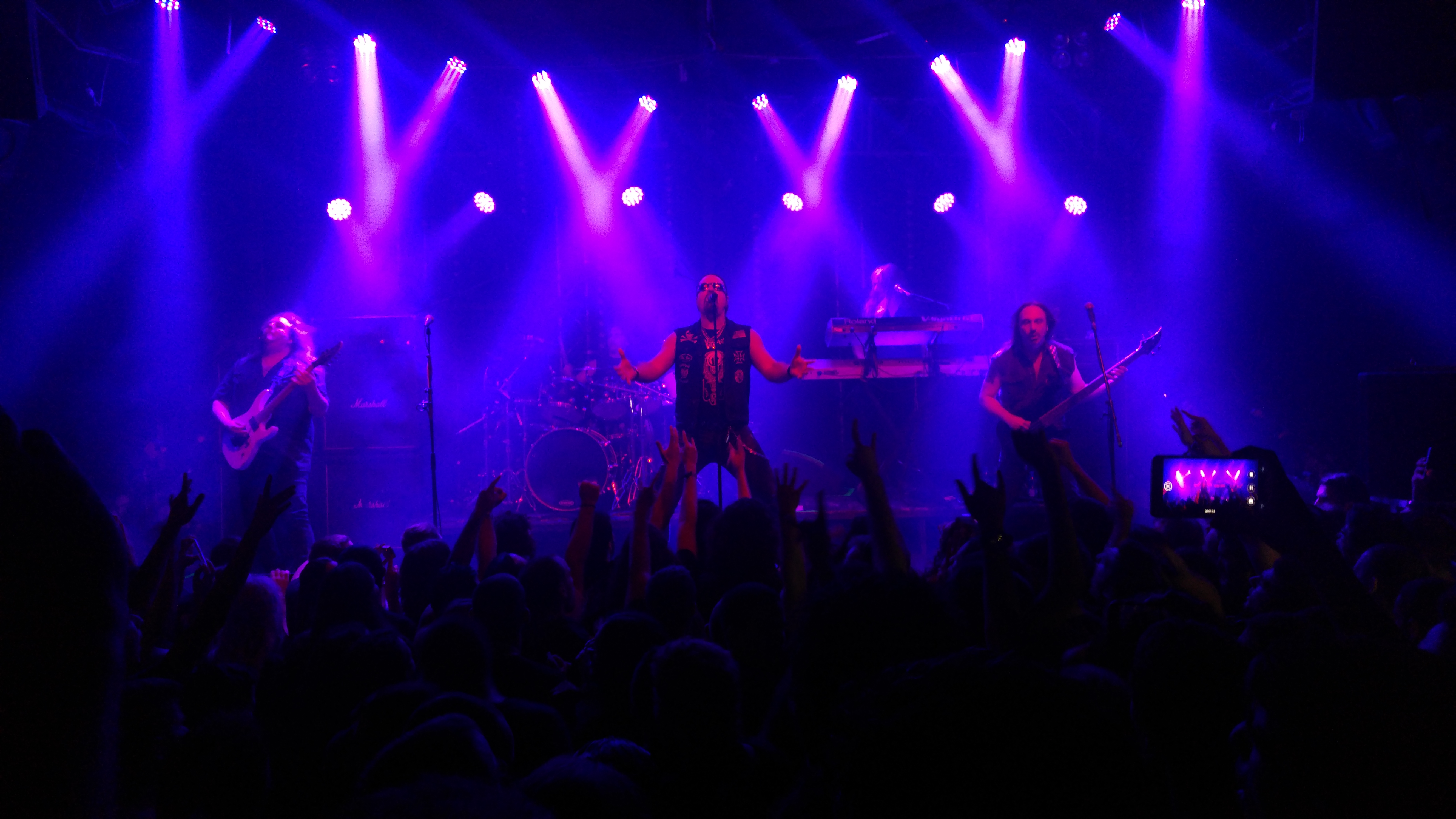 Symphony X - The Barby Club, Tel Aviv, August 2016